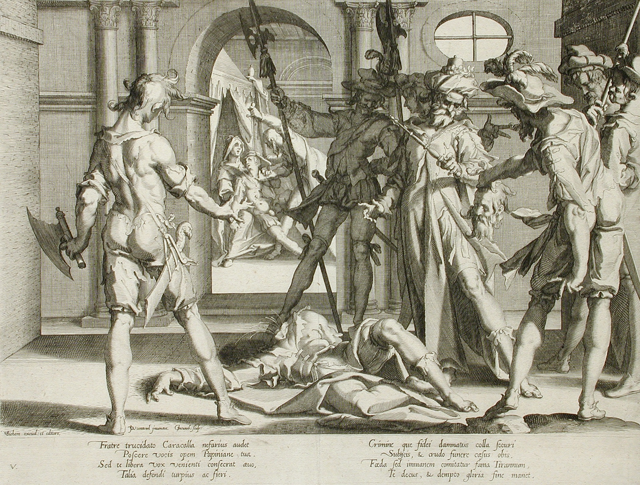 Holland, 1607 Series: Thronus Justitiae, pl. 5 Prints; engravings Engraving Mary Stansbury Ruiz Bequest (M.88.91.354f) Prints and Drawings